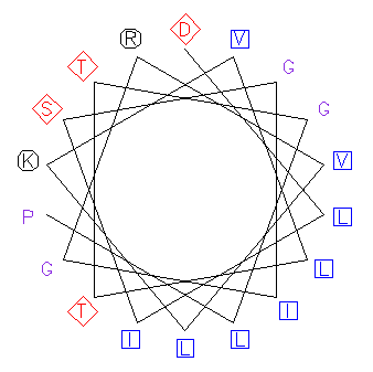 A helical wheel projecting a short amino acid sequence onto an alpha-helix, illustrating the arrangement of amino acids relative to the helix axis. One face is predominantly hydrophobic, the other hydrophilic or polar. (Blue square = aliphatic, red diamond = polar or negatively charged, black octagons = positively charged.)